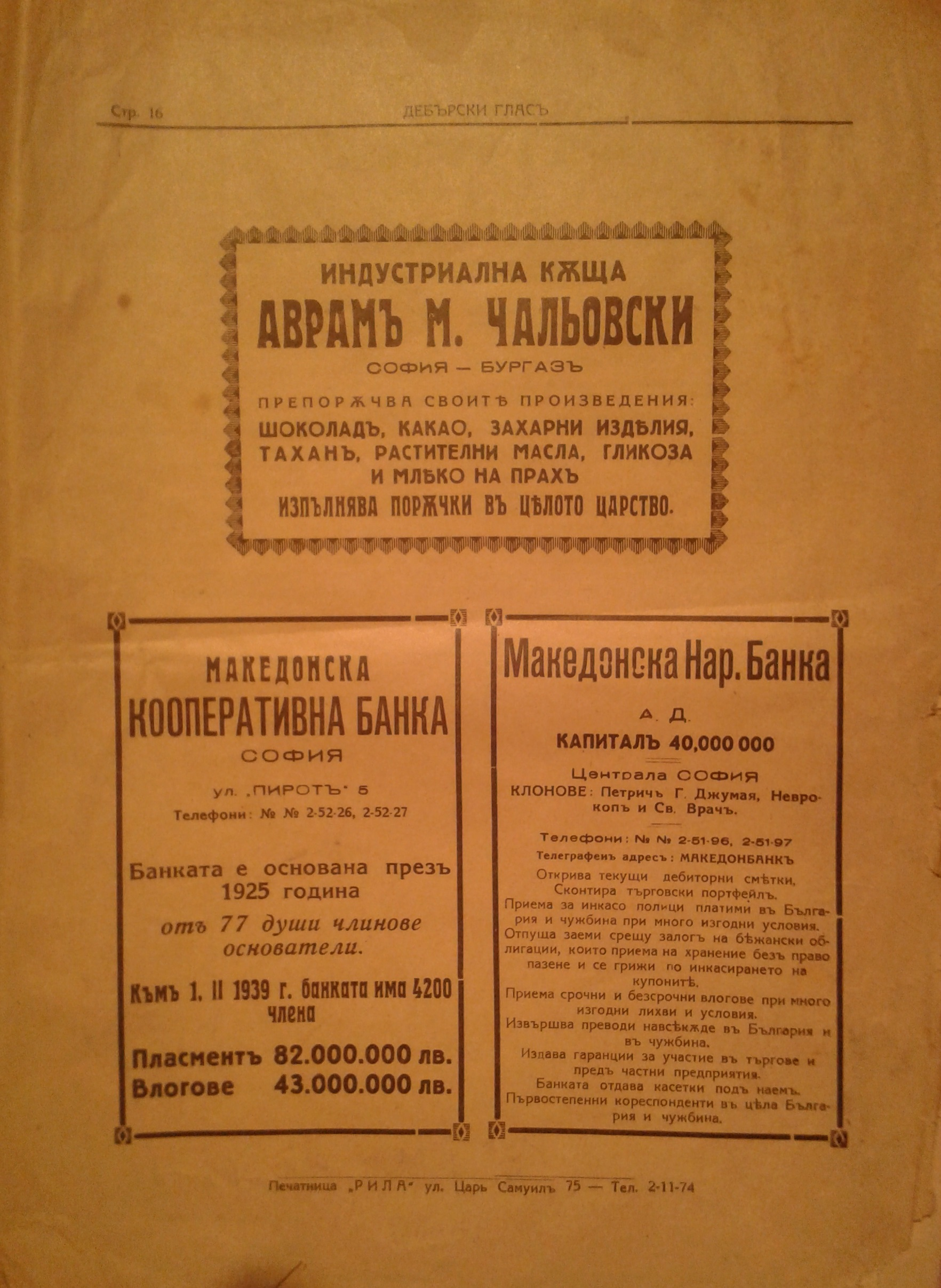 Debarski Glas Newspaper, 12 February 1939